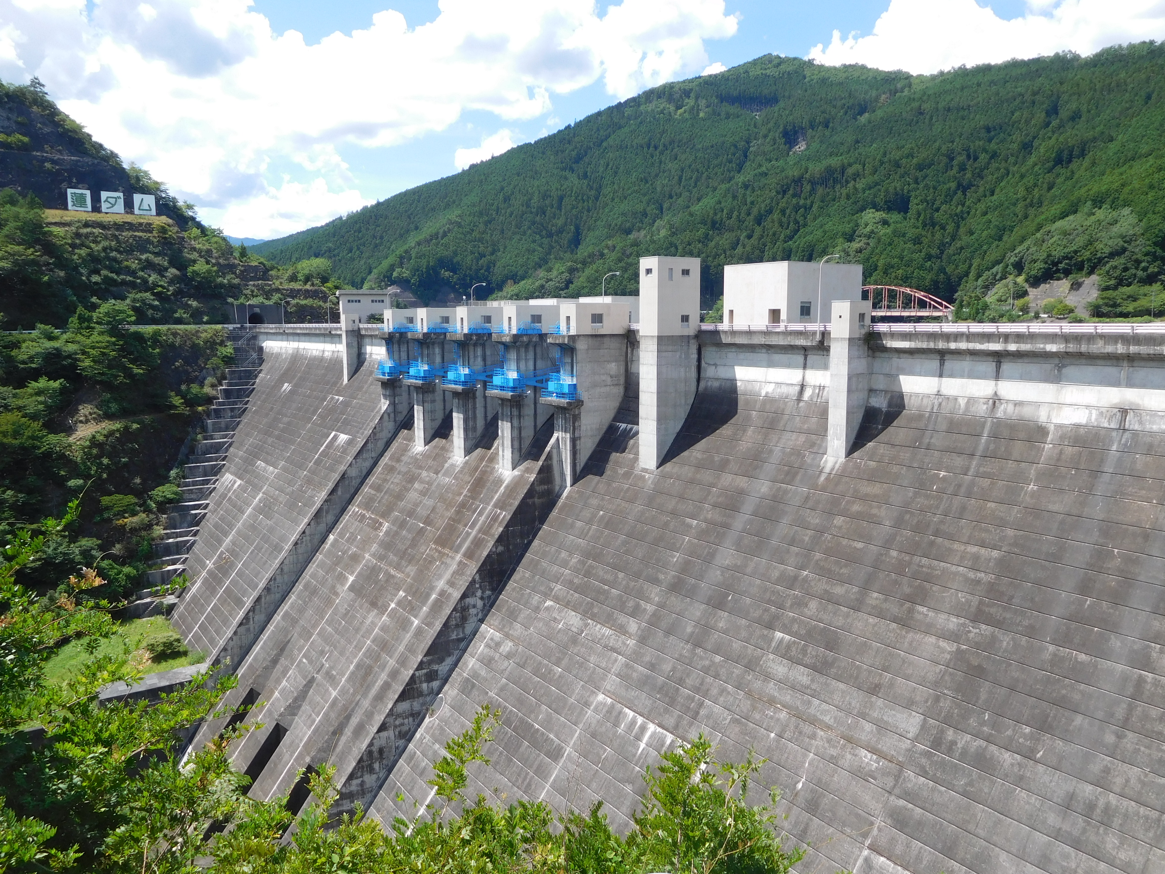 This is Hachisu Dam in Matsusaka, Mie, Japan.